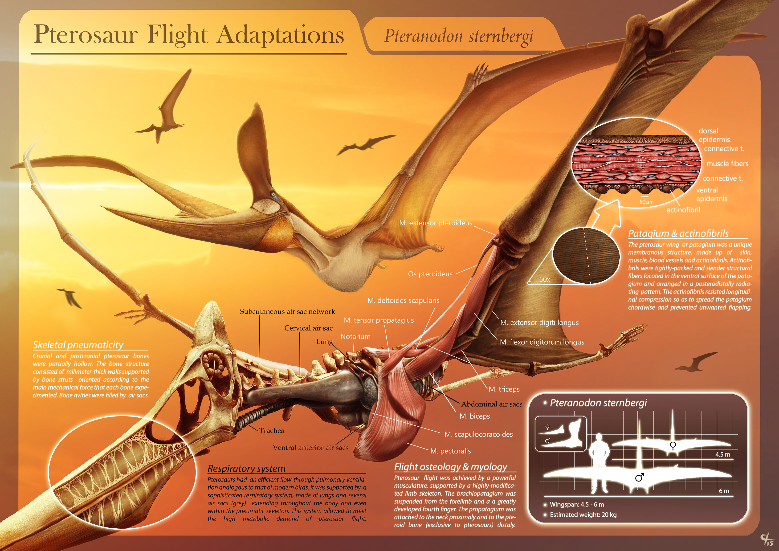 Pterosaurs were the first flying vertebrates and ruled the skies of the Mesozoic era. These flying arcosaurs appeared in the Triassic period and evolved during the Jurassic and Cretacic periods to highly-adapted forms. This infographic shows some of the most remarkable adaptations of pterosaur anatomy and physiology, including the anatomy of the wing or the structure and histology of the patagium (the pterosaur wing membrane), among others, depicted in Pteranodon, one of the most well-known groups of cretacean pterosaurs and an outstanding example of the degree of specialization acquired by pterosaurs.